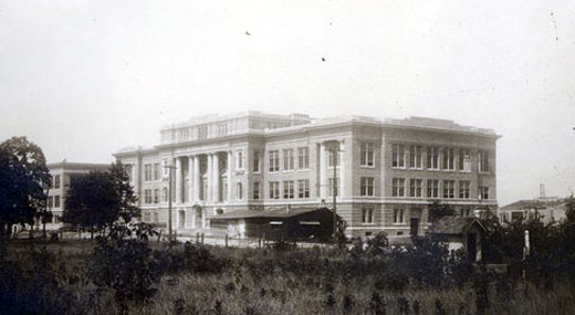 Historical photograph of Bowling Green Normal College in 1915.